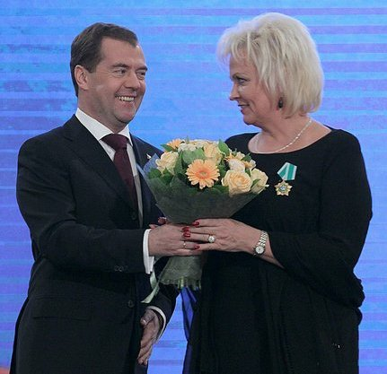 Anne Veski (born 27 February 1956) is an Estonian pop singer who has recorded music in both her native language as well as Russian, and Polish.